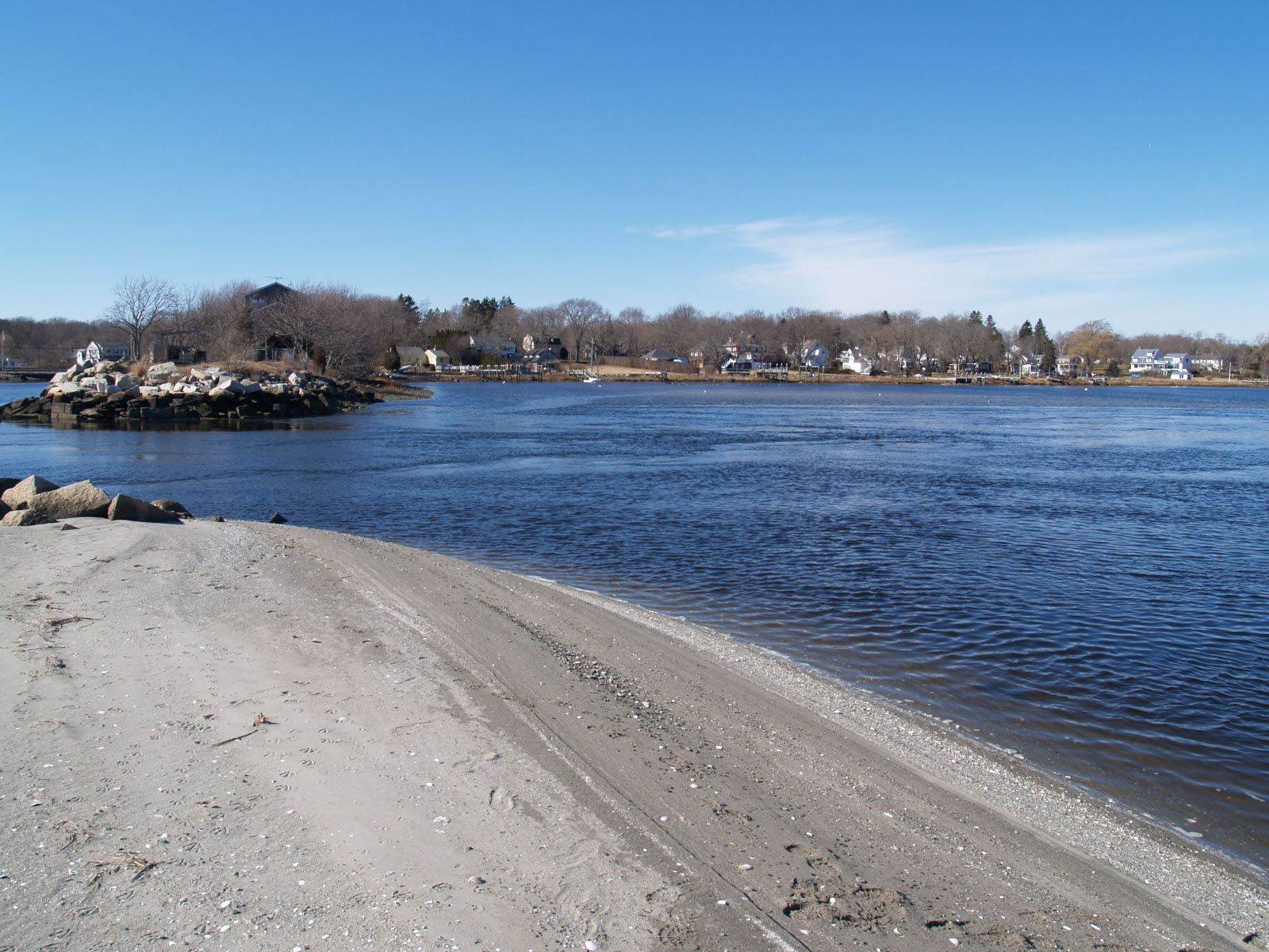 View of Cole River from Ocean Grove, Massachusetts (Town of Swansea)